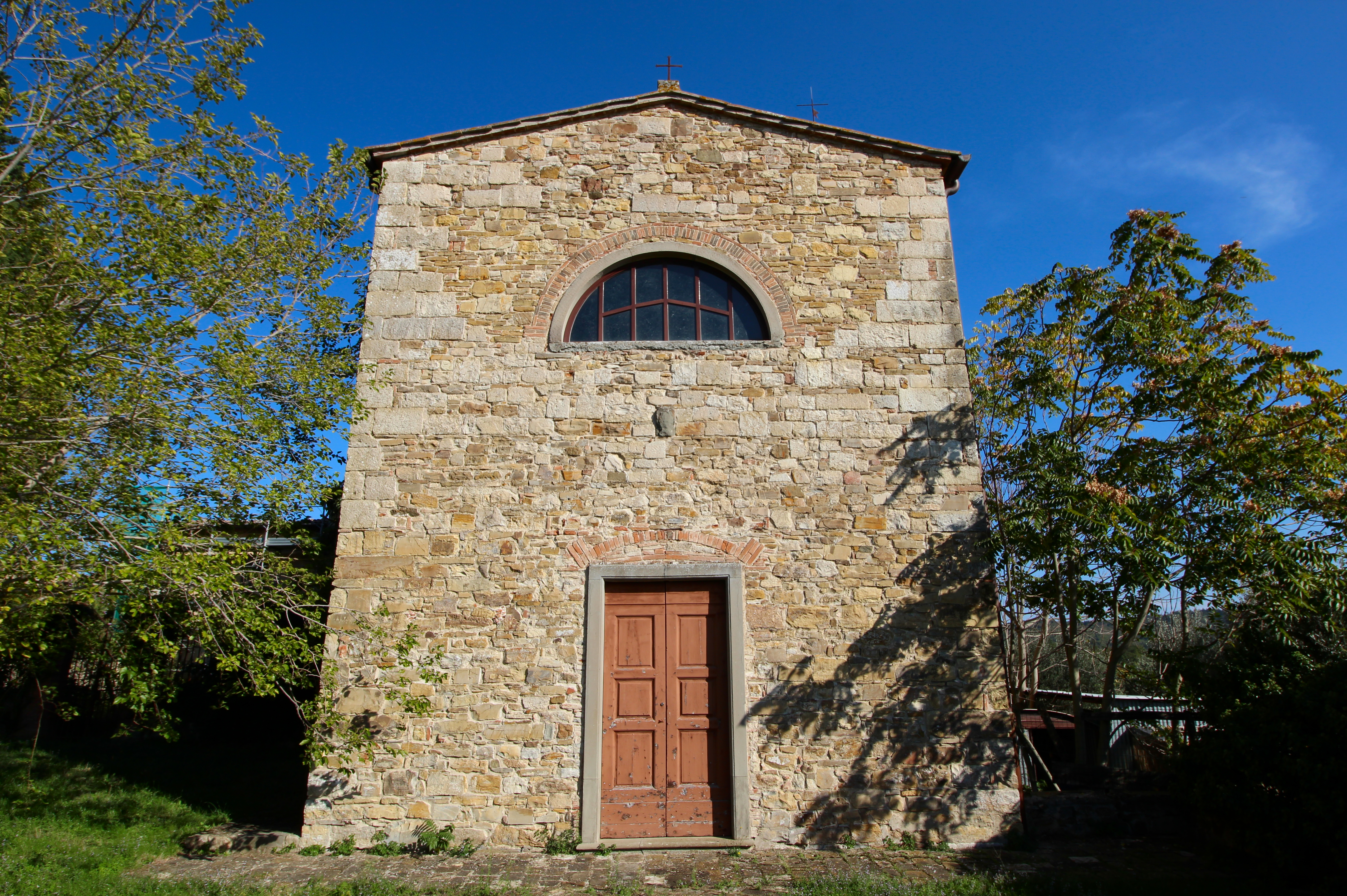 Church San Lorenzo, Cortine, Barberino Val d'Elsa, Comune in the Metropolitan City of Florence, Tuscany, Italy